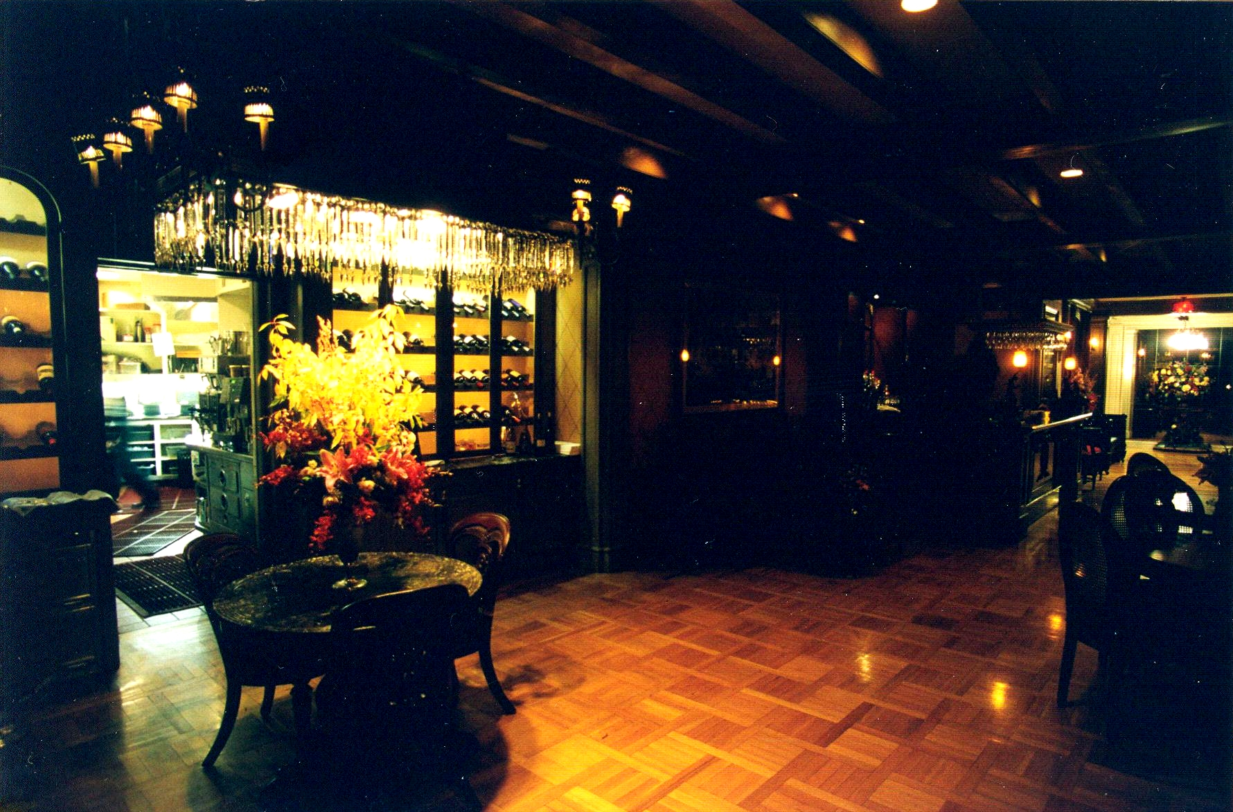 The lounge alley. The hallway at the right leads to the gallery, stairs and elevator to the ground floor.